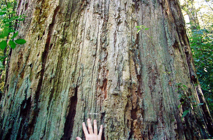 dead big oak of Bonsecours forest (north of France)